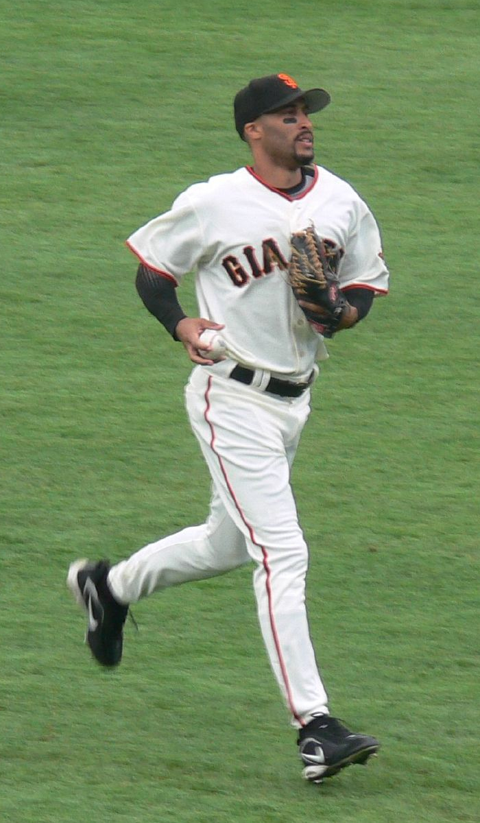 Randy WinnRandy Winn takes the field